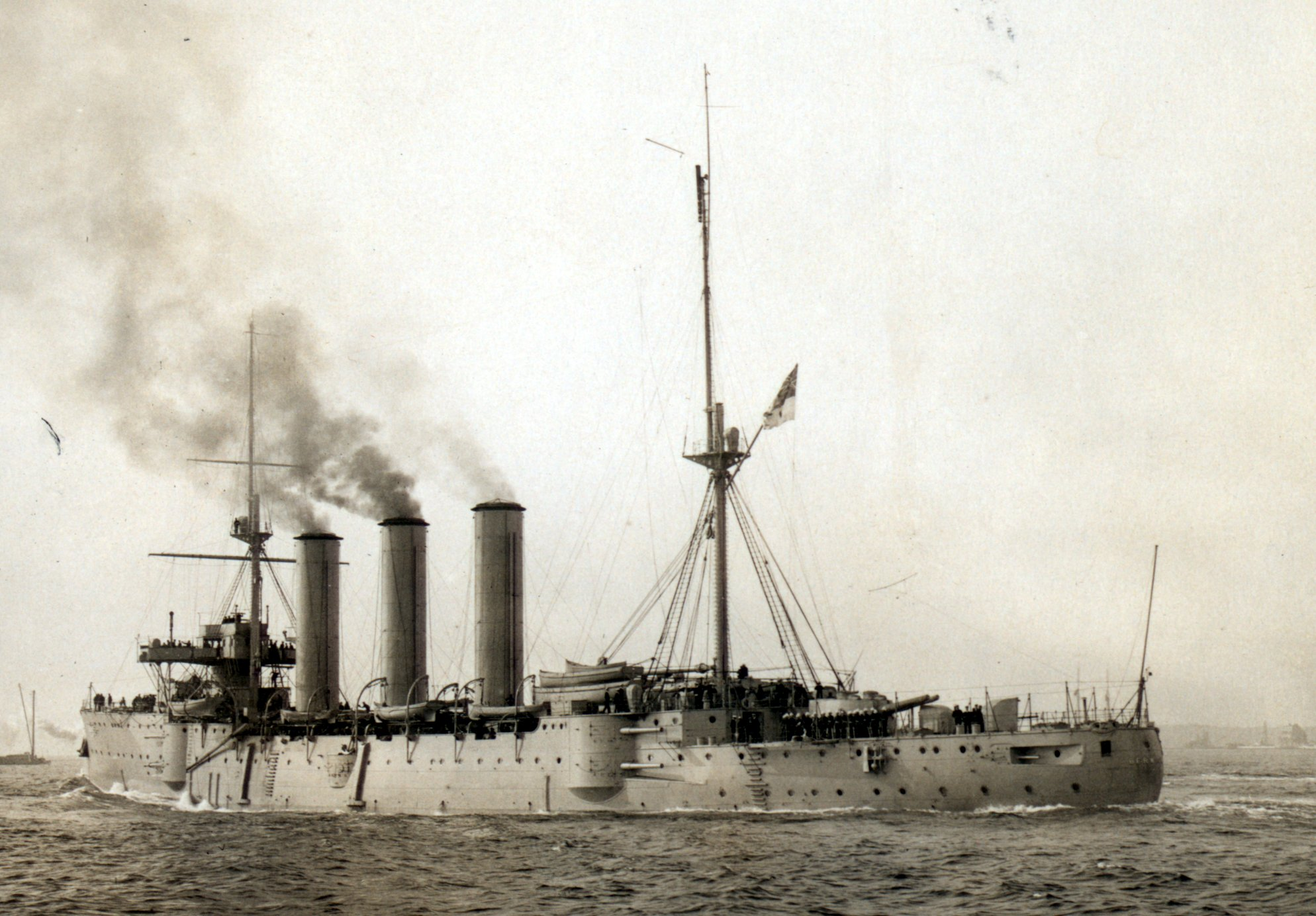 Monmouth class armoured cruiser HMS Berwick (ID from the stern name, not 100% certain) arriving in New York, probably at the time of the Portsmouth Peace Conference.